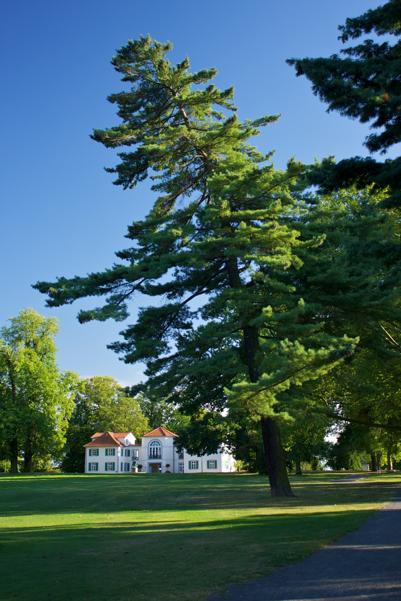 Schloss Park Schoenfeld Kassel Wehlheiden